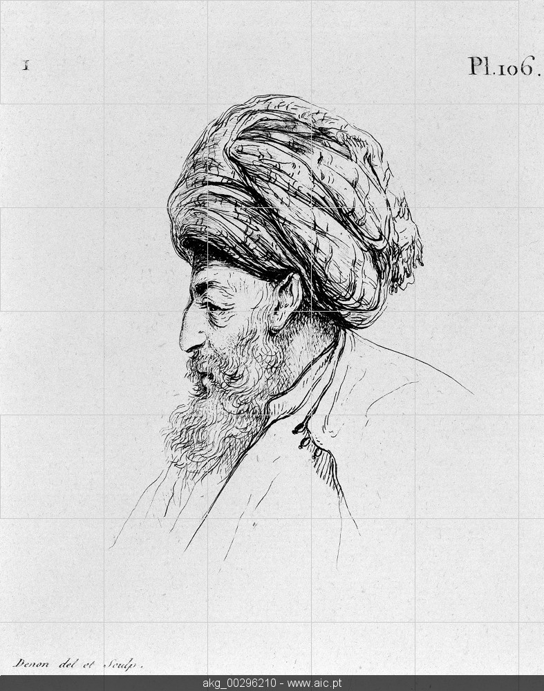 Mustafa Pasha, Seid / (Mustapha Pasha, Said), commander of the Turkish troops at the Battle of Abukir (or Aboukir) on 25th June 1799, later Sultan Mustafa IV. - Portrait. - Etching by D.V.Denon (1747-1825). From: Denon, ’Voyage dans la Basse et la Haute gypte (...)’, Paris 1802, plate 106, Nr.1, 13 x 14cm.